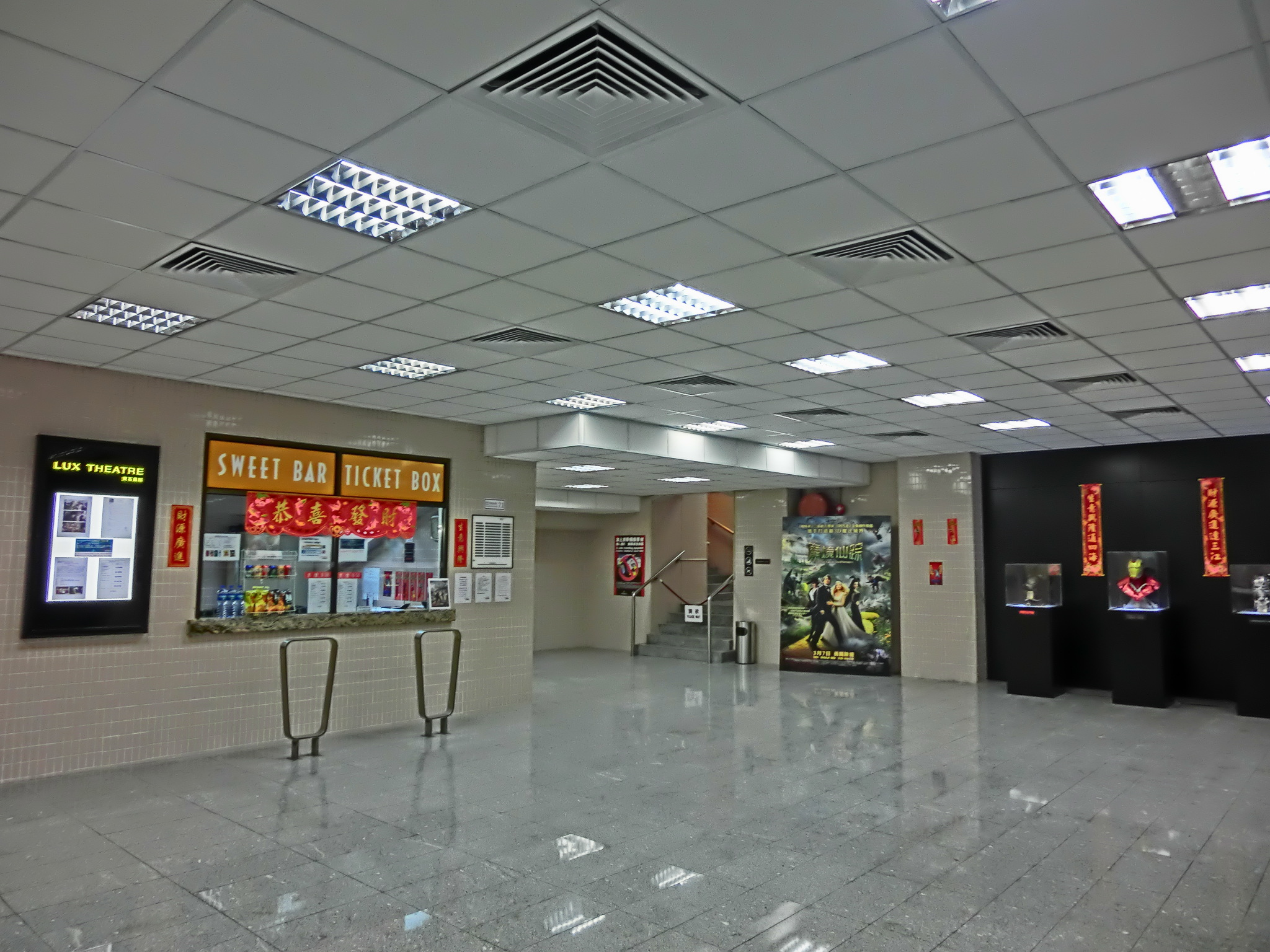 紅磡 寶石戲院, Lux Theatre, Hung Hom, Hong Kong